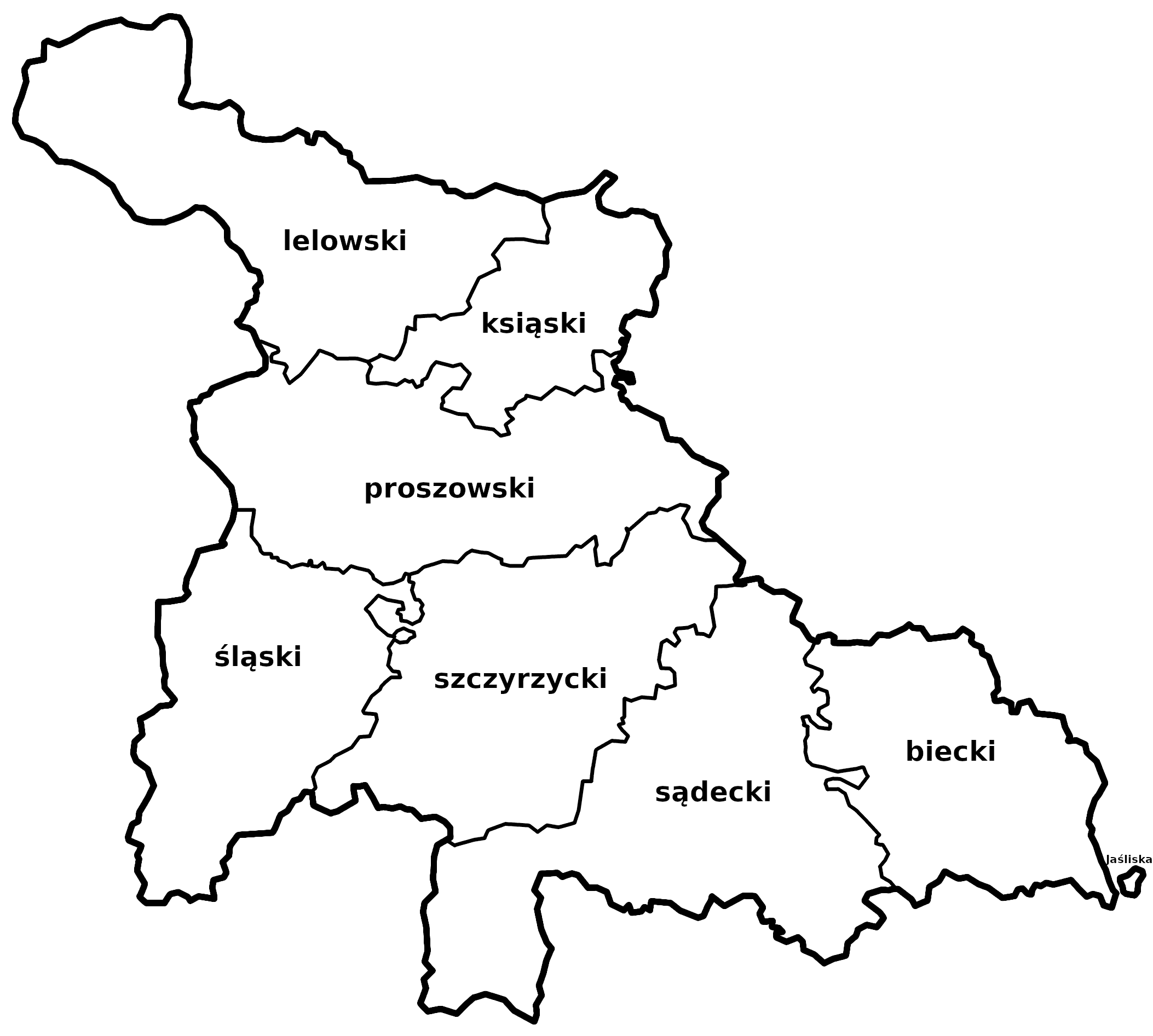 Counties of Kraków Voivodeship about 1600